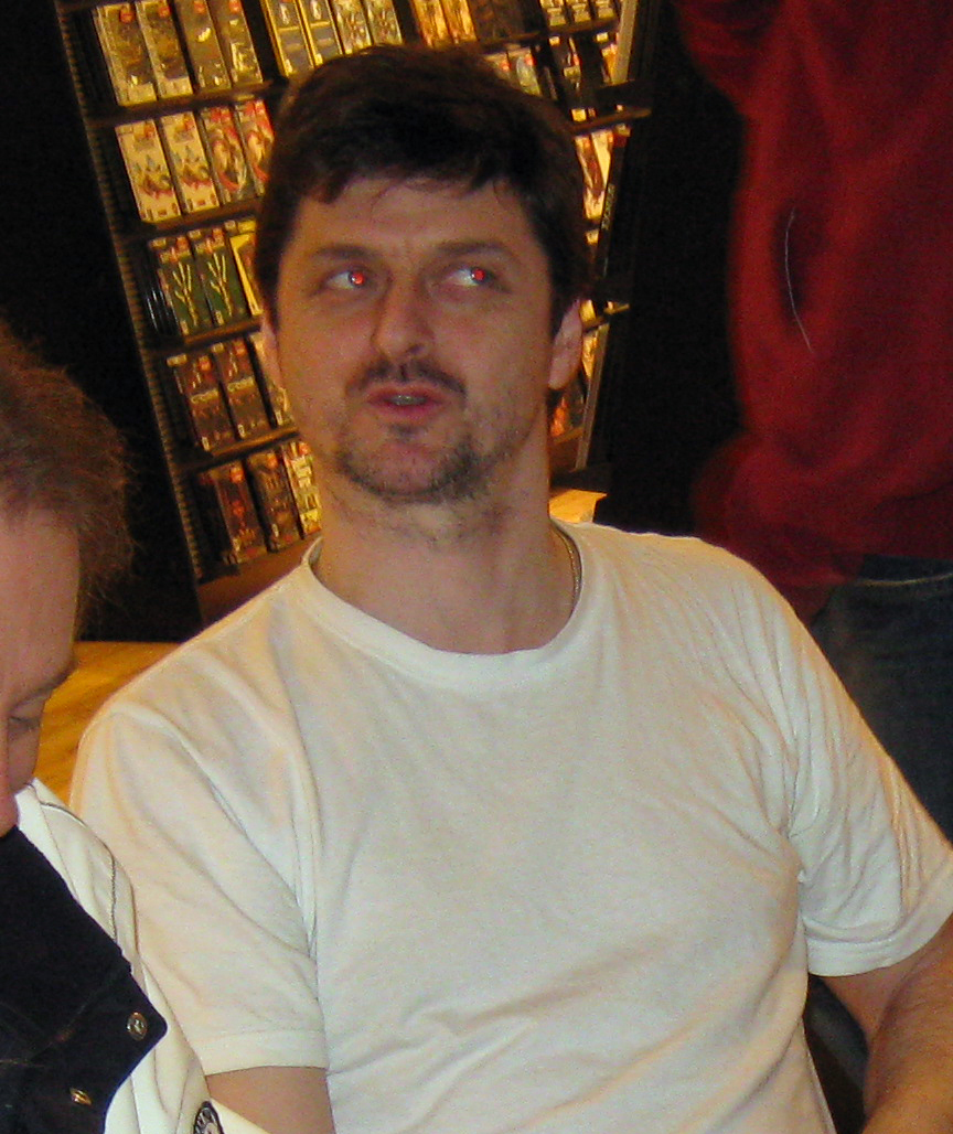 Morten Skogstad, drummer in Stage Dolls at Amfi Arena i Arendal Norway, signing their latest album Always